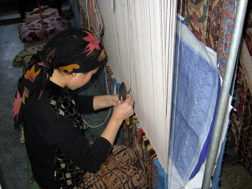 Khotan (Hotan / Hetian) is an oasis city in the Xinjiang Uygur Autonomous Region of the People's Republic of China. Carpet factory.